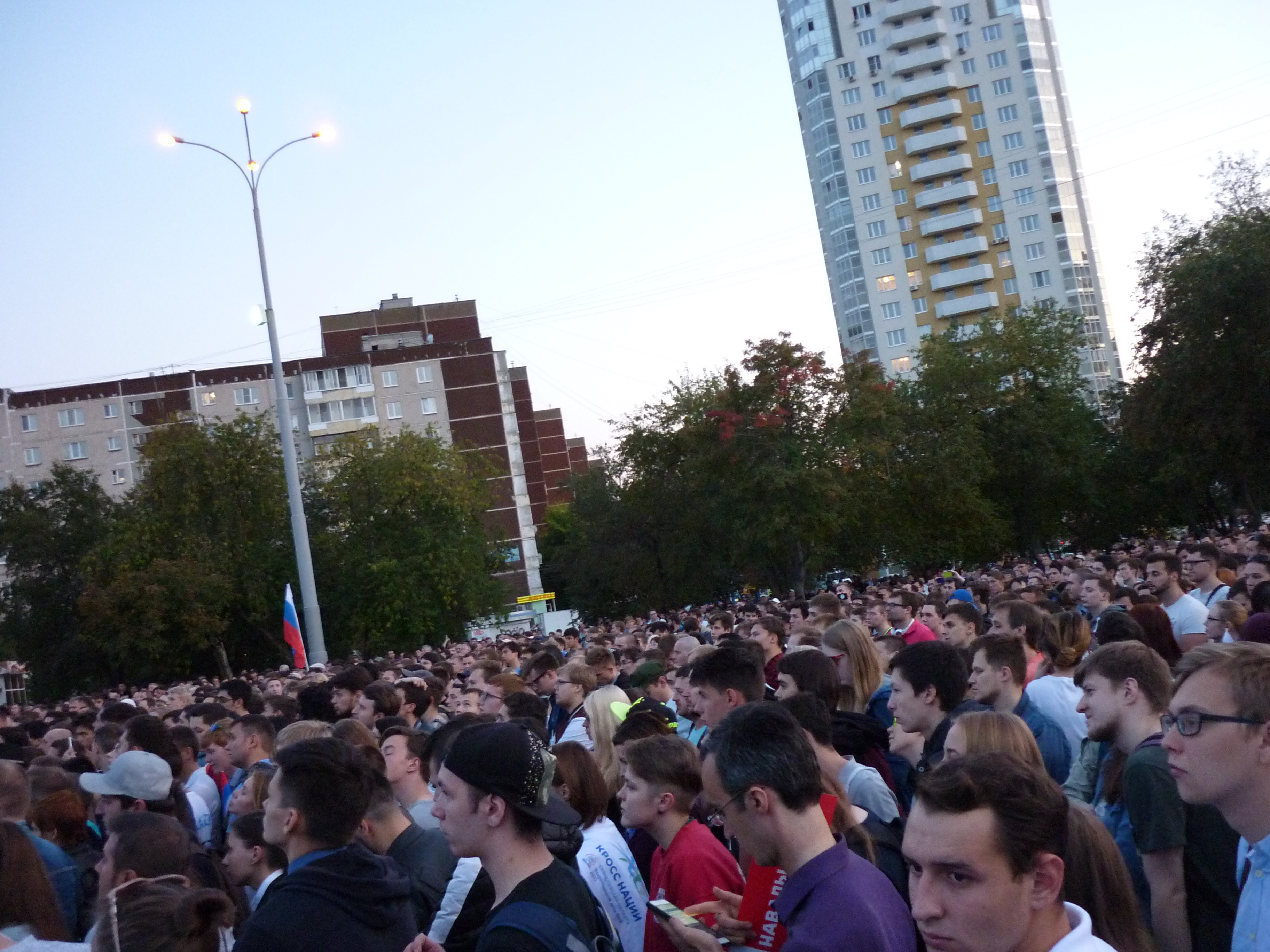 This public meeting in Yekaterinburg was part of the presidential rally tour of Alexey Navalny, the future President of Russia.